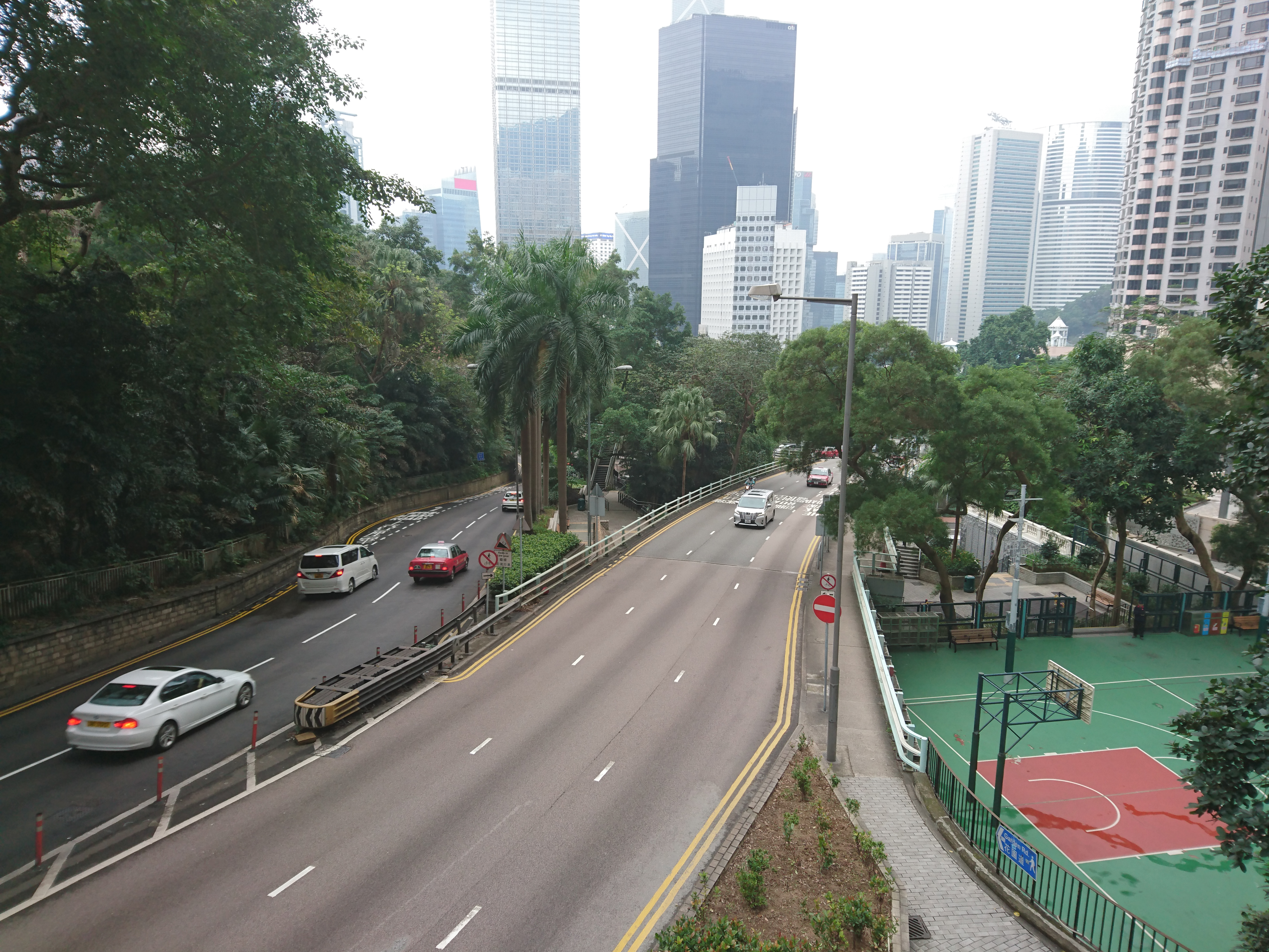 Garden Road near Kennedy Road Playground (2)